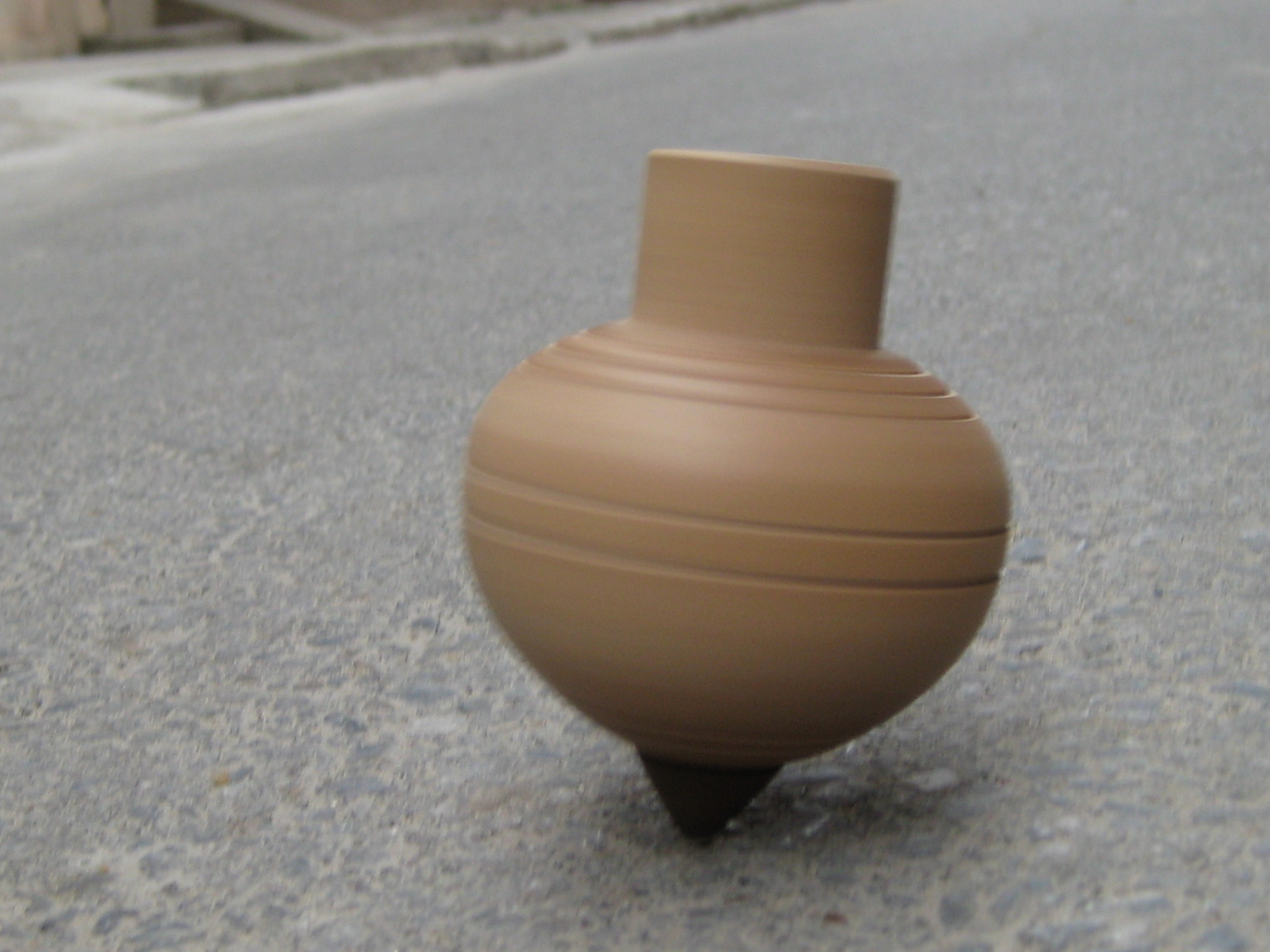 A Vietnamese top